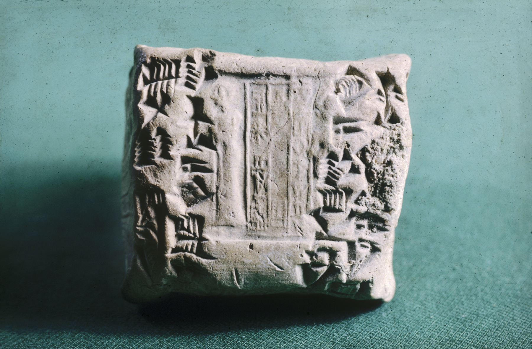 Before the writing was added, this tablet, a receipt, was marked with a cylinder seal dated to the reign of King Shulgi of Ur. Still visible are a standing figure of a worshiper with one hand raised and three lines of an inscription with the name of a scribe, suggesting that the seal may have belonged to the person who wrote the tablet.